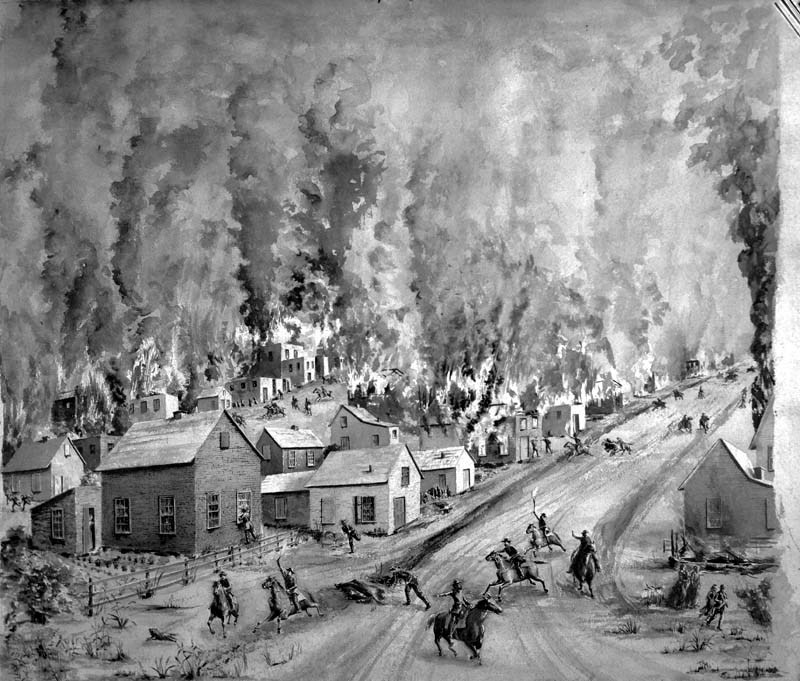 Black and white water color on paper was created by Lauretta Louise Fox Fisk, wife of Washburn College sociology professor Dr. D.M. Fisk, shows Quantrill's raid on Lawrence, Kansas, August 21, 1863.